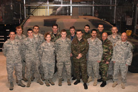 Members of Slovak Armed Forces train with the 181st Intelligence Wing in Terre Haute, Ind., circa 2010. Photo courtesy of